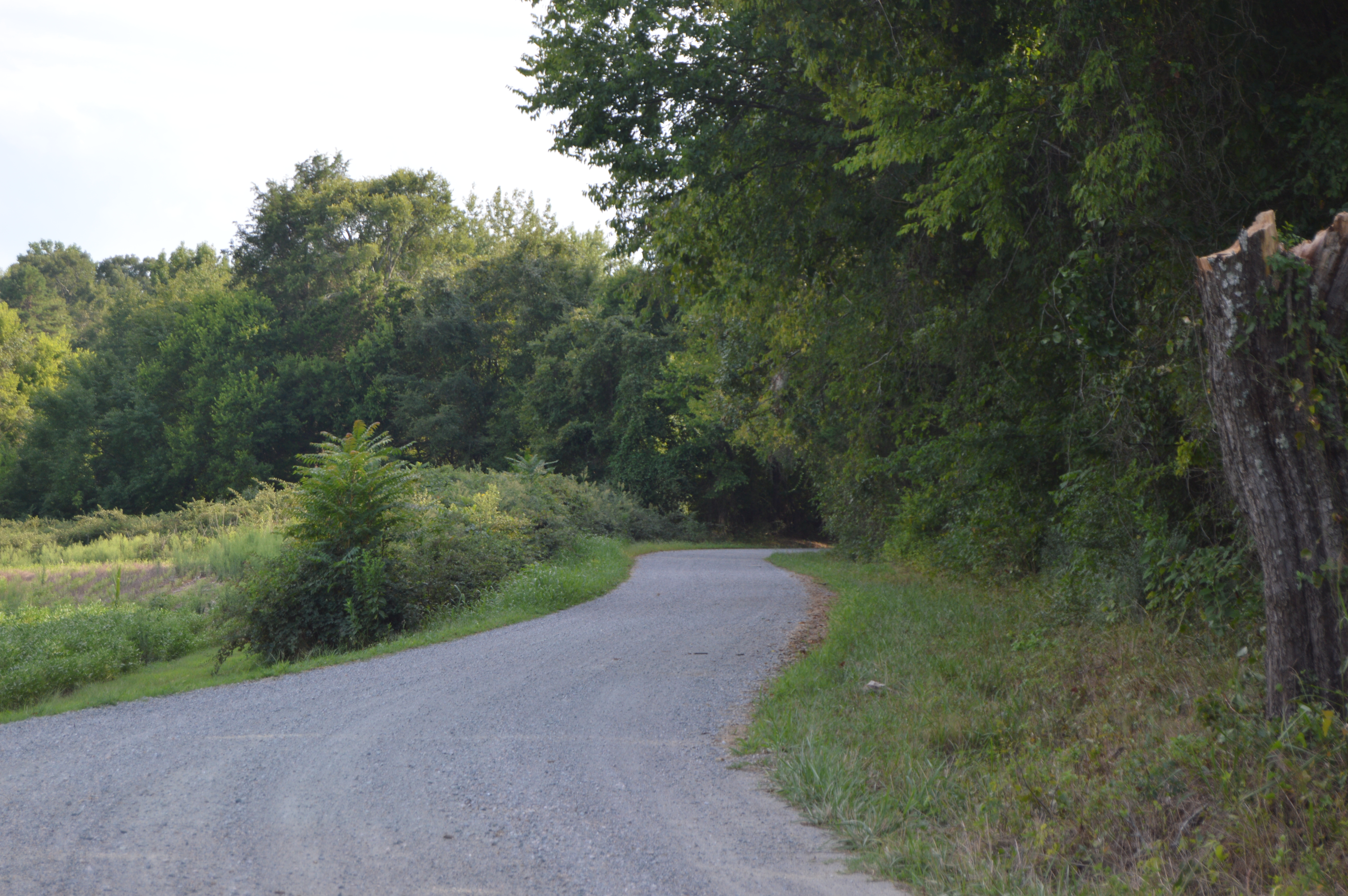 Driveway to Rock Castle, located at the end of Rock Castle Road southwest of Goochland Court House in Goochland County, Virginia, United States. The estate is listed on the National Register of Historic Places.